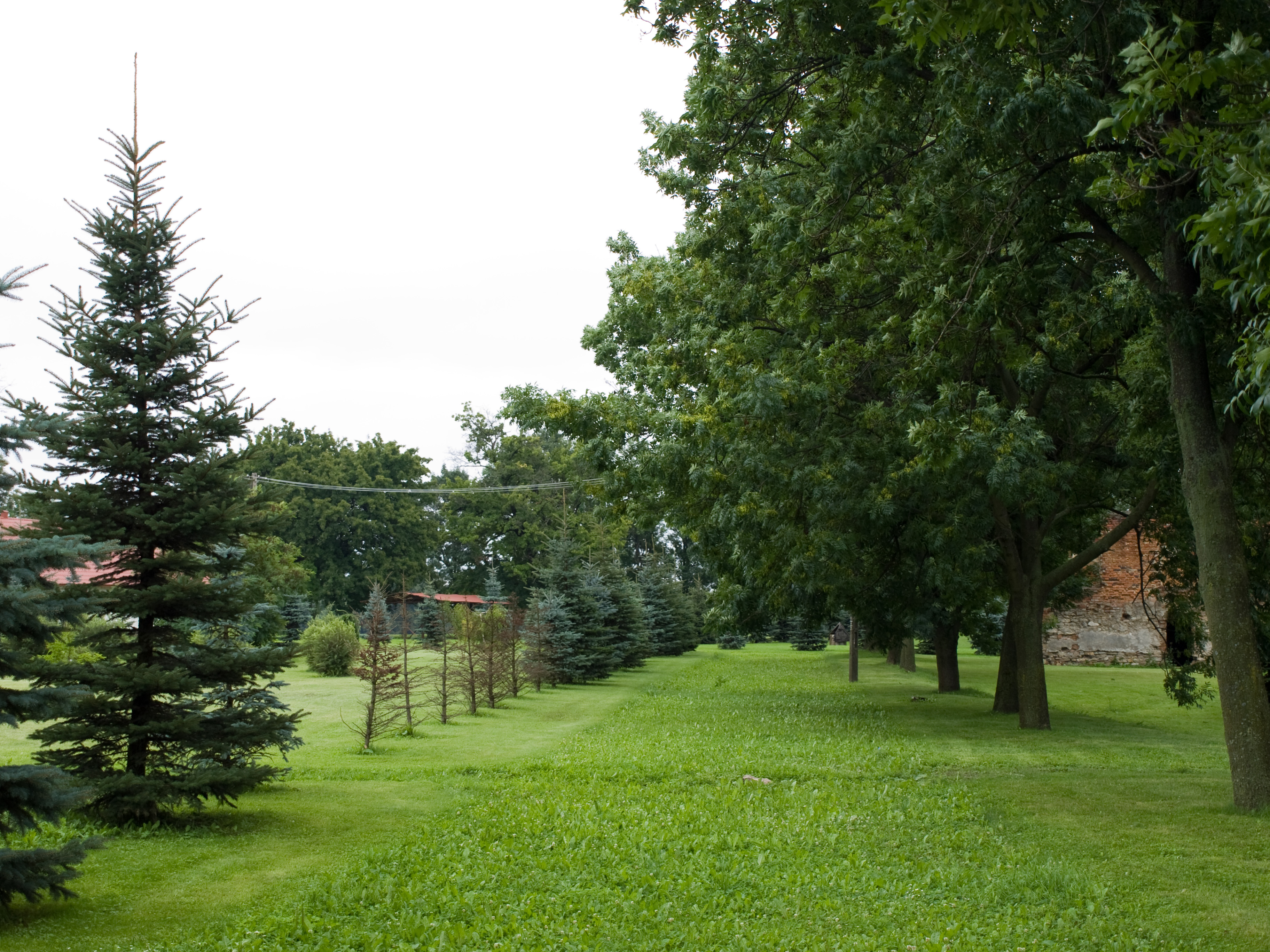 Manor house, Fredropol, Subcarpathian Voivodeship